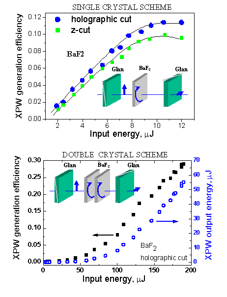 Experiment XPW